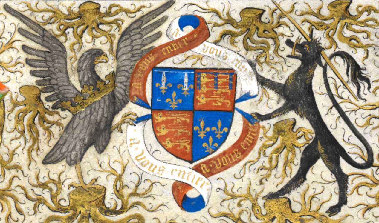 Arms of John of Lancaster, 1st Duke of Bedford (1389-1435), Knight of the Garter, third surviving son of King Henry IV. Detail from f. 256v, BL Add MS 18850(the "Bedford Hours"), c.1410-30. Held and digitised by the British Library.